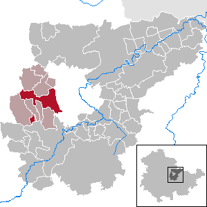 Nohra in Thuringia - District Weimarer Land